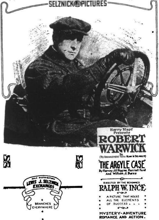 Advertisement for the American mystery film The Argyle Case (1917) with Robert Warwick, on page 24 of the February 9, 1917 Variety.